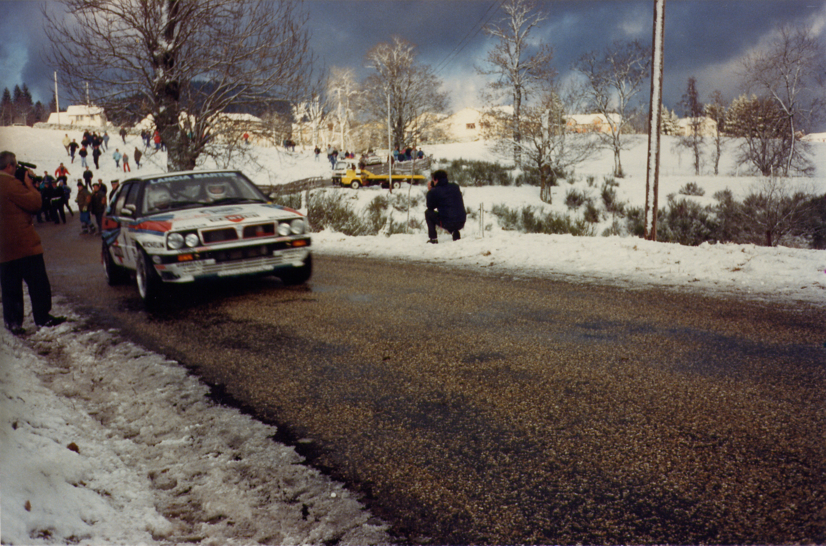 Bruno Saby and Jean-François Fauchille's #1 Lancia Delta HF Integrale "8v" of Martini Racing at 1989 Monte Carlo Rally, SS2 Lalouvesc.